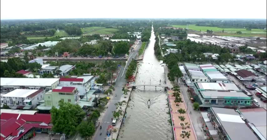 Vinh Vien Town - Long Mỹ District